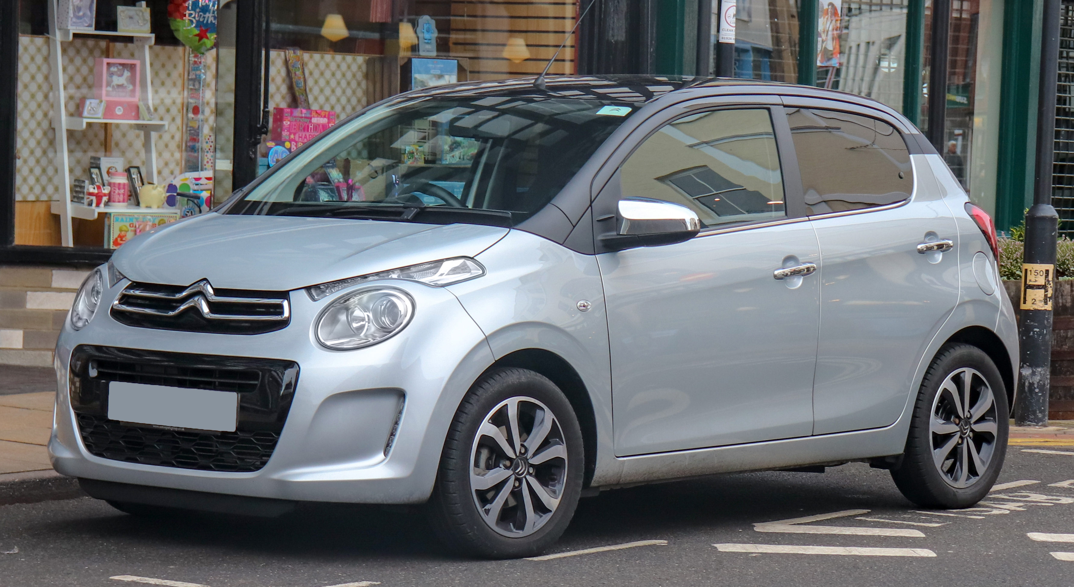 2017 Citroen C1 Flair Puretech 1.2 Front Taken in Warwick